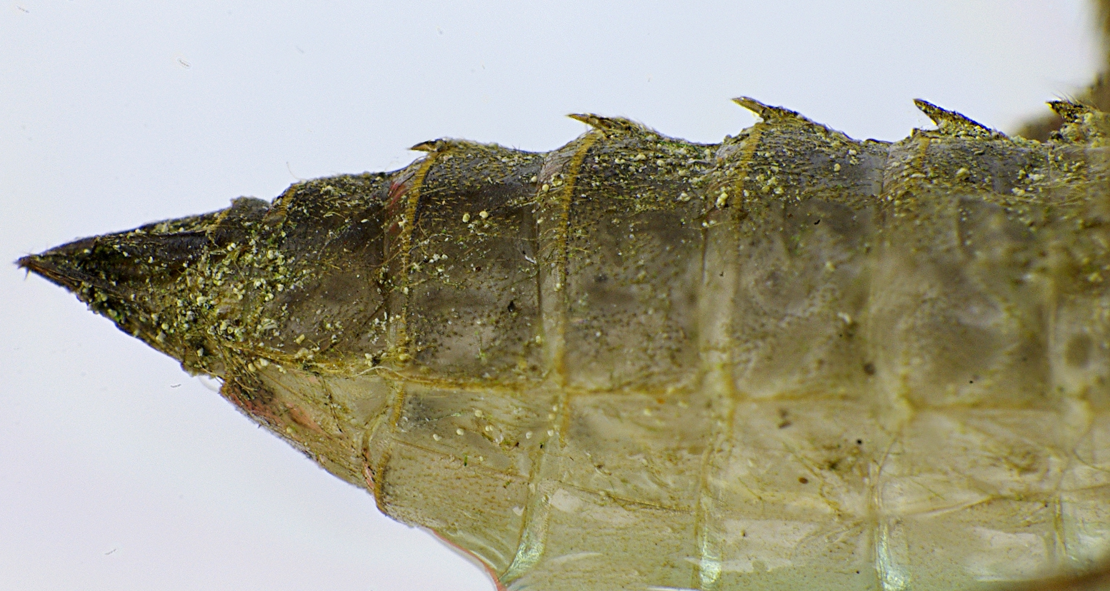 hind part of abdomen of larva of Libellula quadrimaculata from side with dorsal teeth. From Southern Germany, Baden-Württemberg, between the towns Tuttlingen and Rottweil at 700 m.o.s.